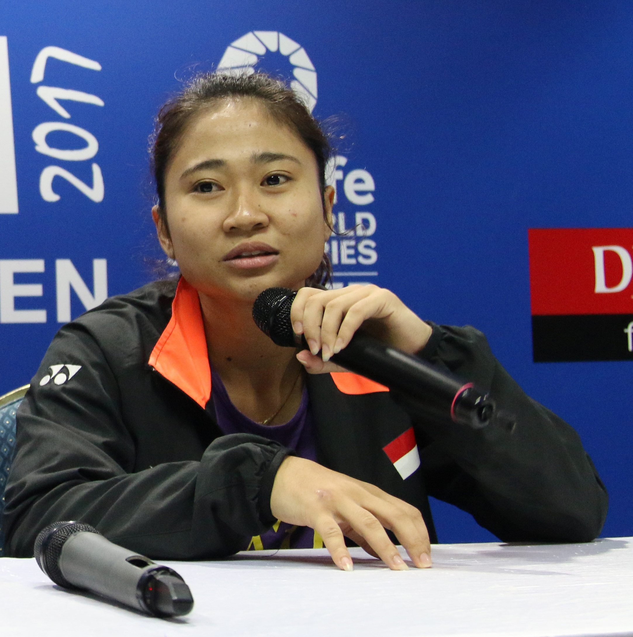 Ni Ketut Mahadewi at Indonesia Open 2017 badminton tournament